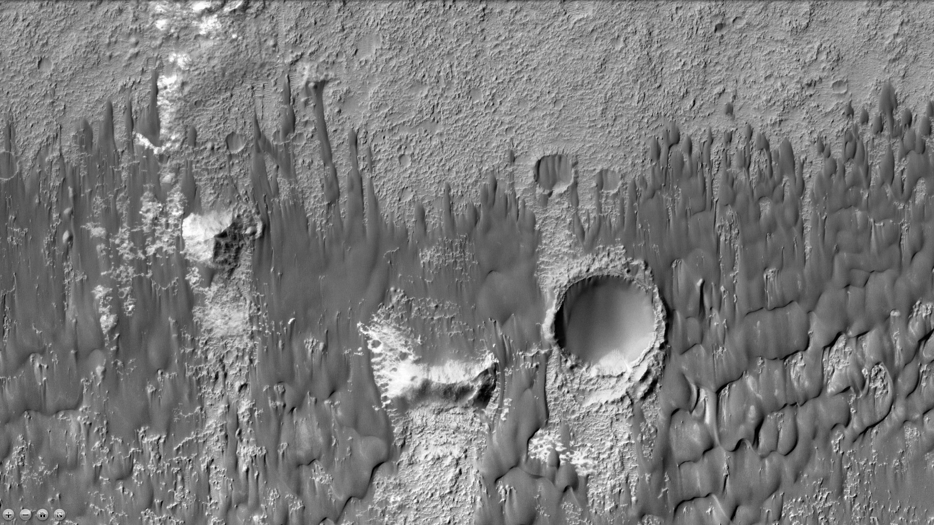 Briault Crater showing dunes, as seen by ctx